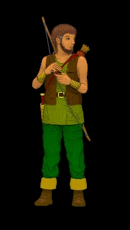 An image of what is supposed to be some sort of archer, medieval fantasy style. Originally made for the content of a web site, the image was mostly drawn using XPaint.